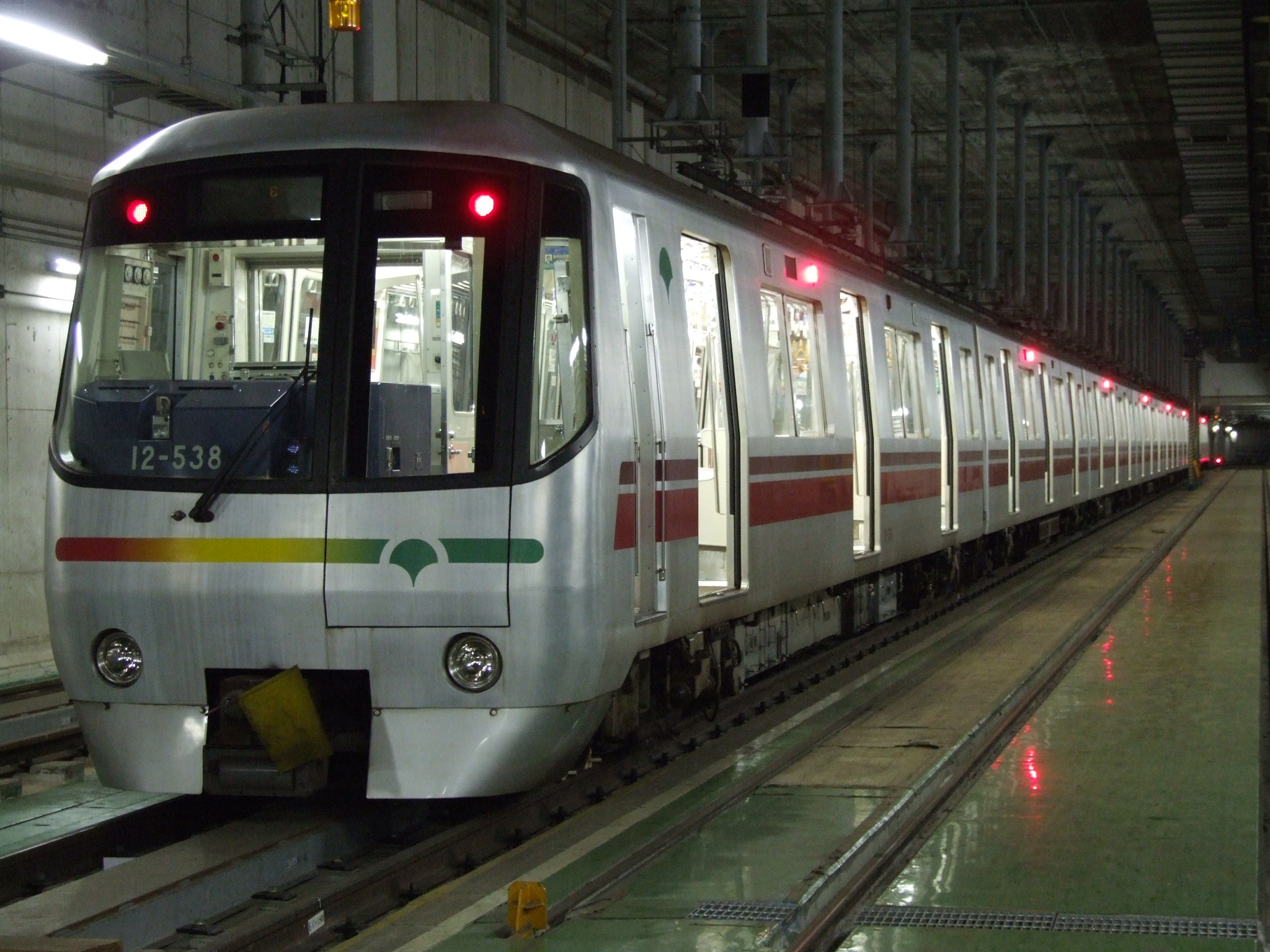 A Toei 12-000 series subway EMU inside Kiba Depot